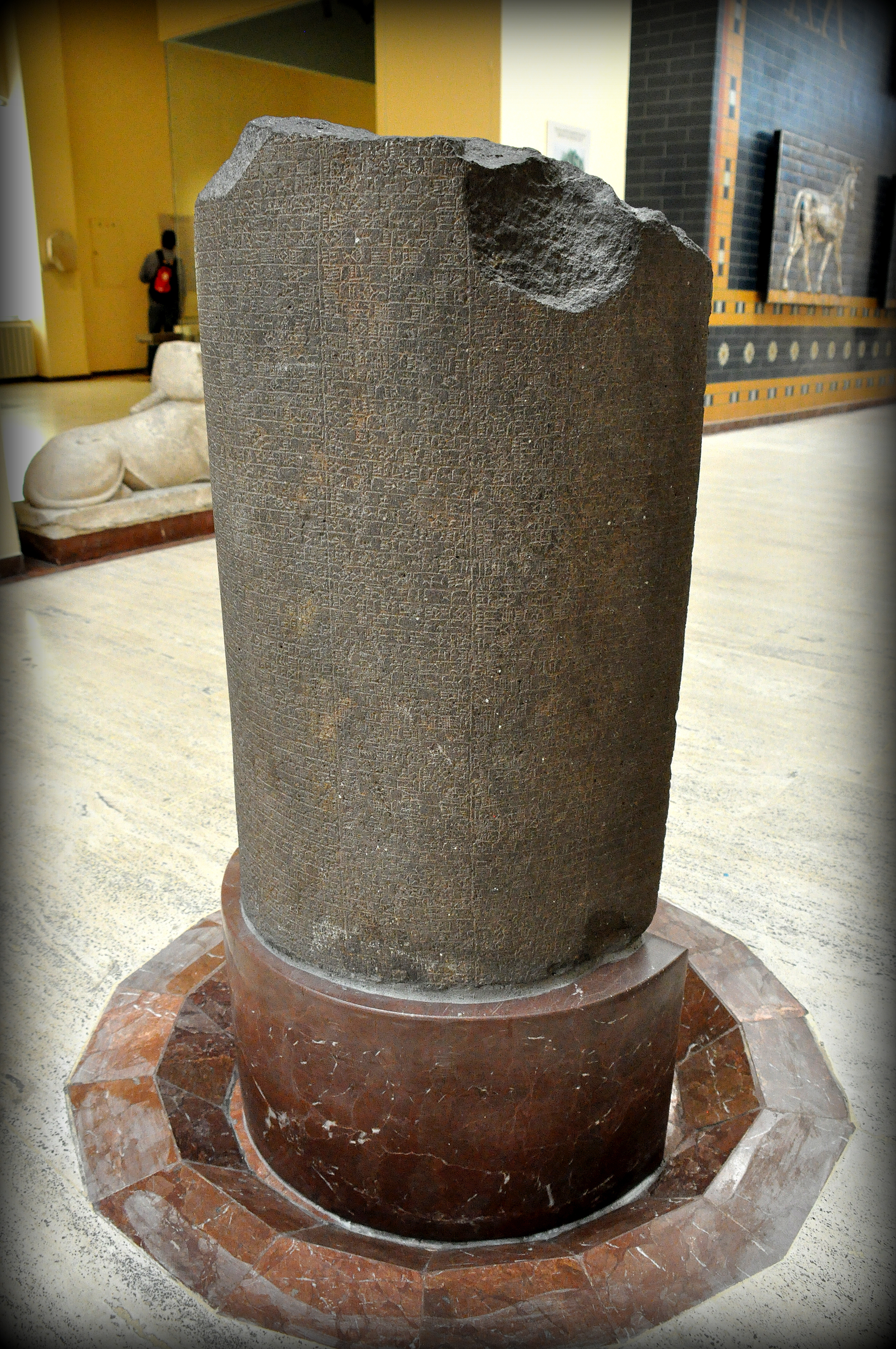 The stele mentions the various religious activities carried out by king Nabonidus. It also mentions the harassment of enemies to the city of Babylon and its surrounding cities; the renovation of these cities by him; as well as homage paid to Gods welling in them. From Mesopotamia, modern-day Iraq. Neo-Babylonian period, 555-539 BCE. Ancient Orient Museum/Istanbul Archeological Museums, Turkey.